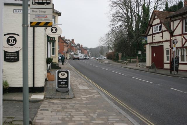 Hartley Wintney Looking southwest along the main A30 road in Hartley Wintney.